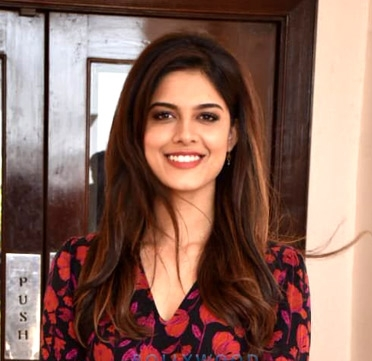 Miss Supranational 2014, Asha Bhat at a promotional even for the film 'Junglee'.